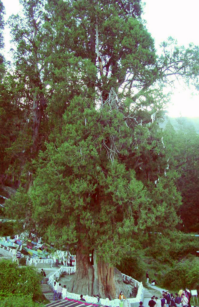 King Cypress tree, located near Bajie/Bayi (Nyingchi County), Tibet. Its a specimen of Cupressus gigantea